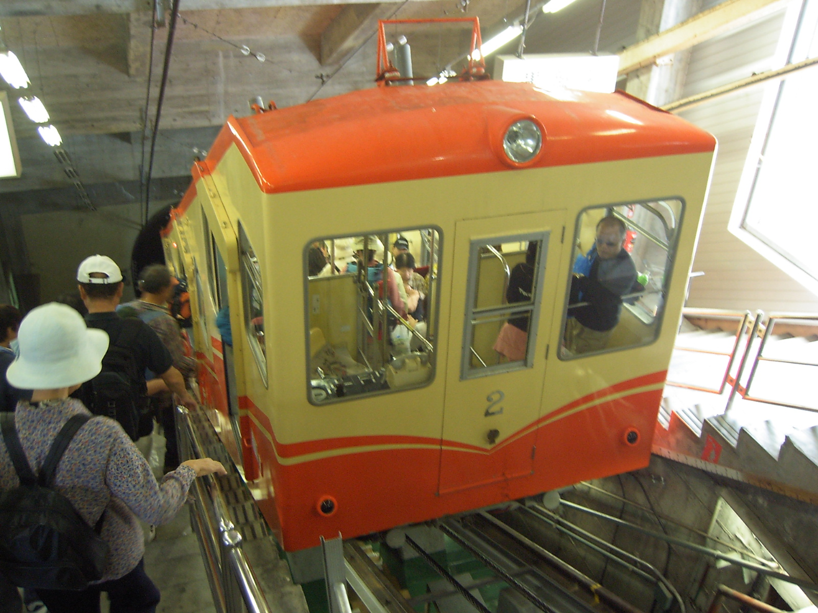 Carriage of Kurobe Cable Car